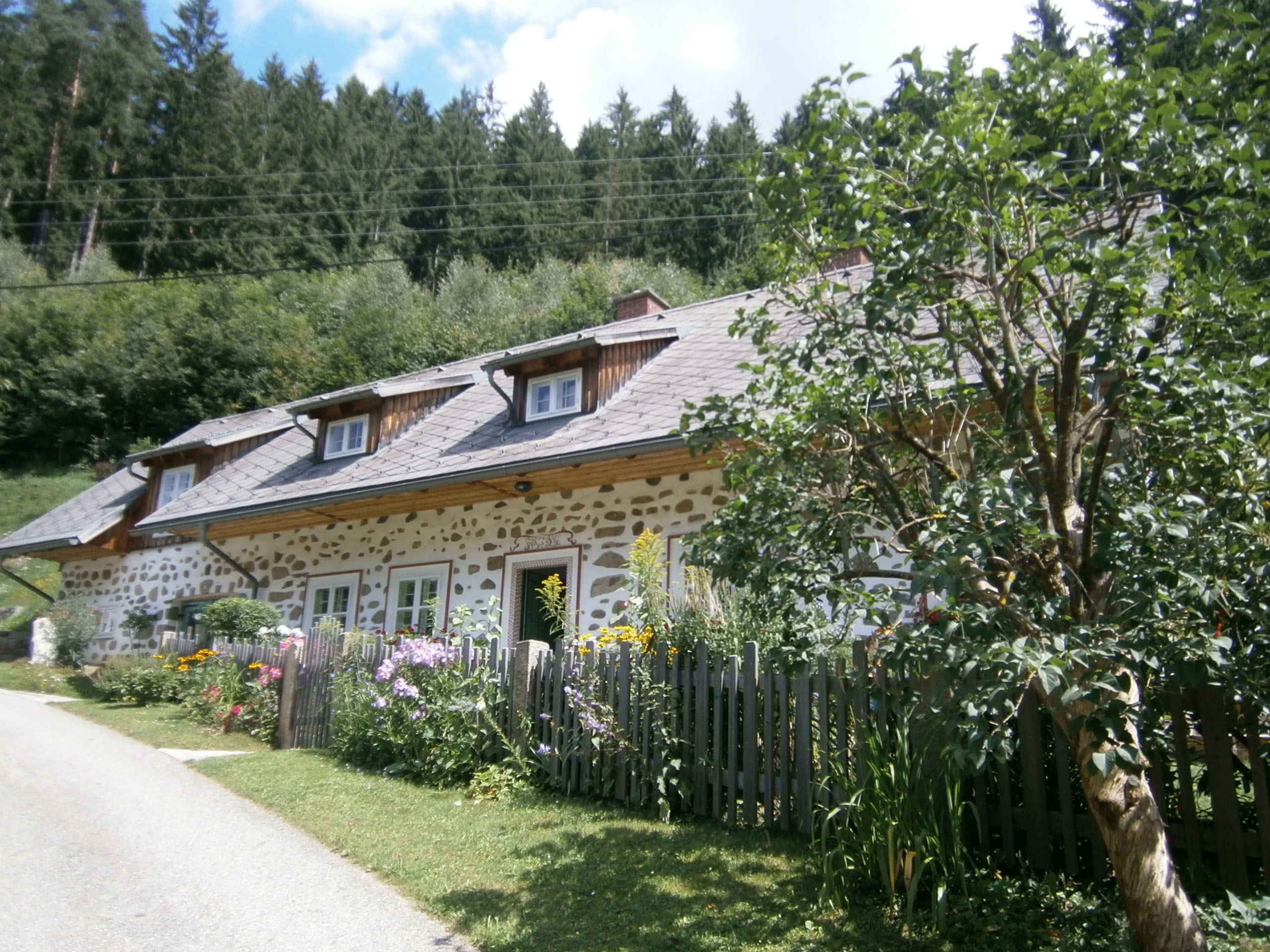 Former hosue of Franz von Zülow in Hirschbach im Mühlkreis, Upper Austria